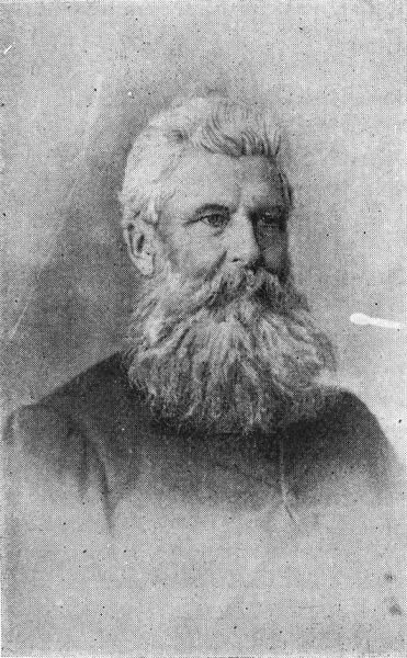 Charles Edward Button (23 August 1838 – 27 December 1920)